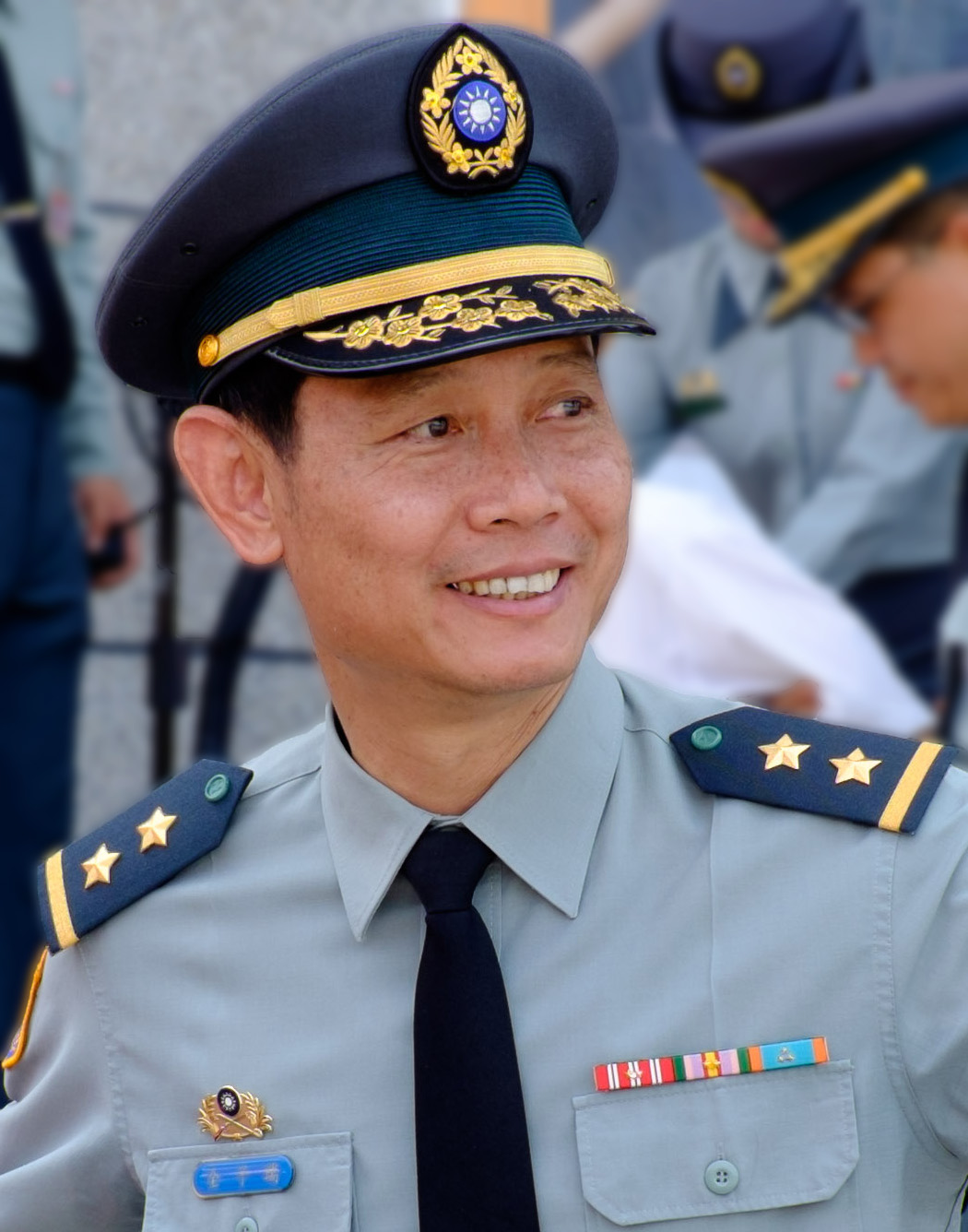 Lieutenant General Chuan Tzu-jui, Commander of the ROCA Hualien & Taitung Defence Command